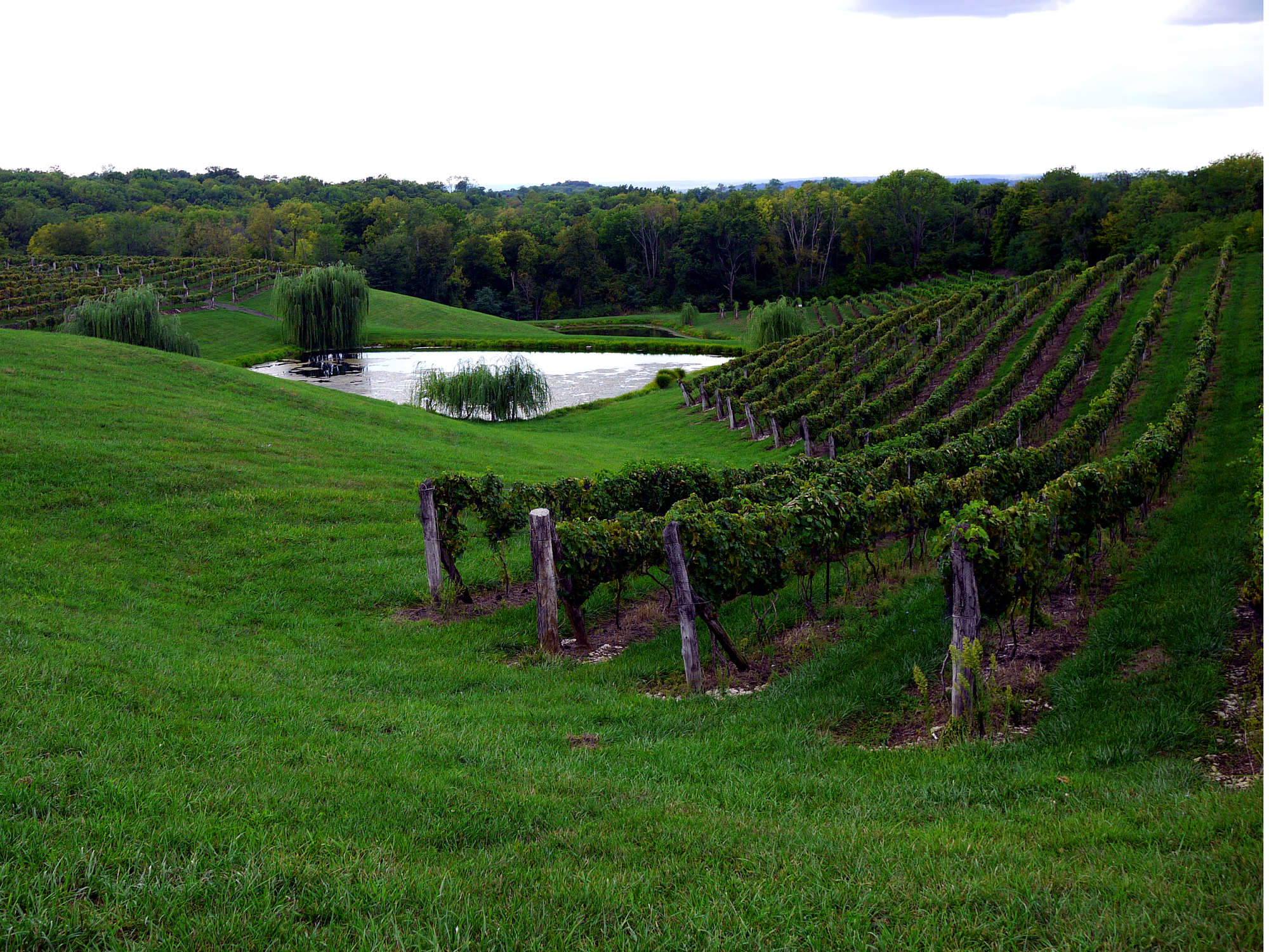 Vineyard owned by Vinoklet Winery located in Hamilton County, Ohio